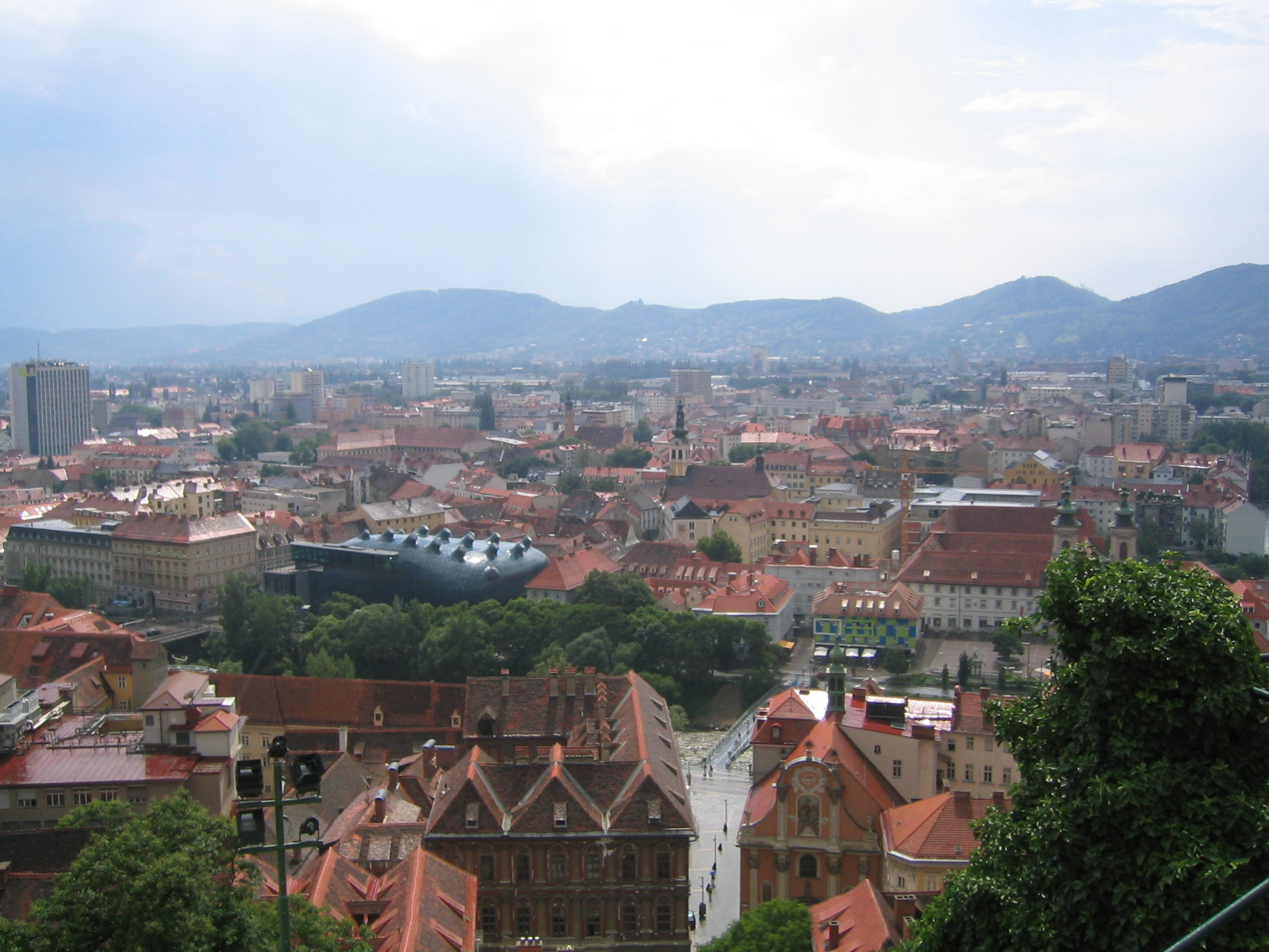 View over Graz, Austria, from the clock tower. View includes the Kunsthaus, the modern art museum, which is the thing that looks like the upturned blue cow udder.